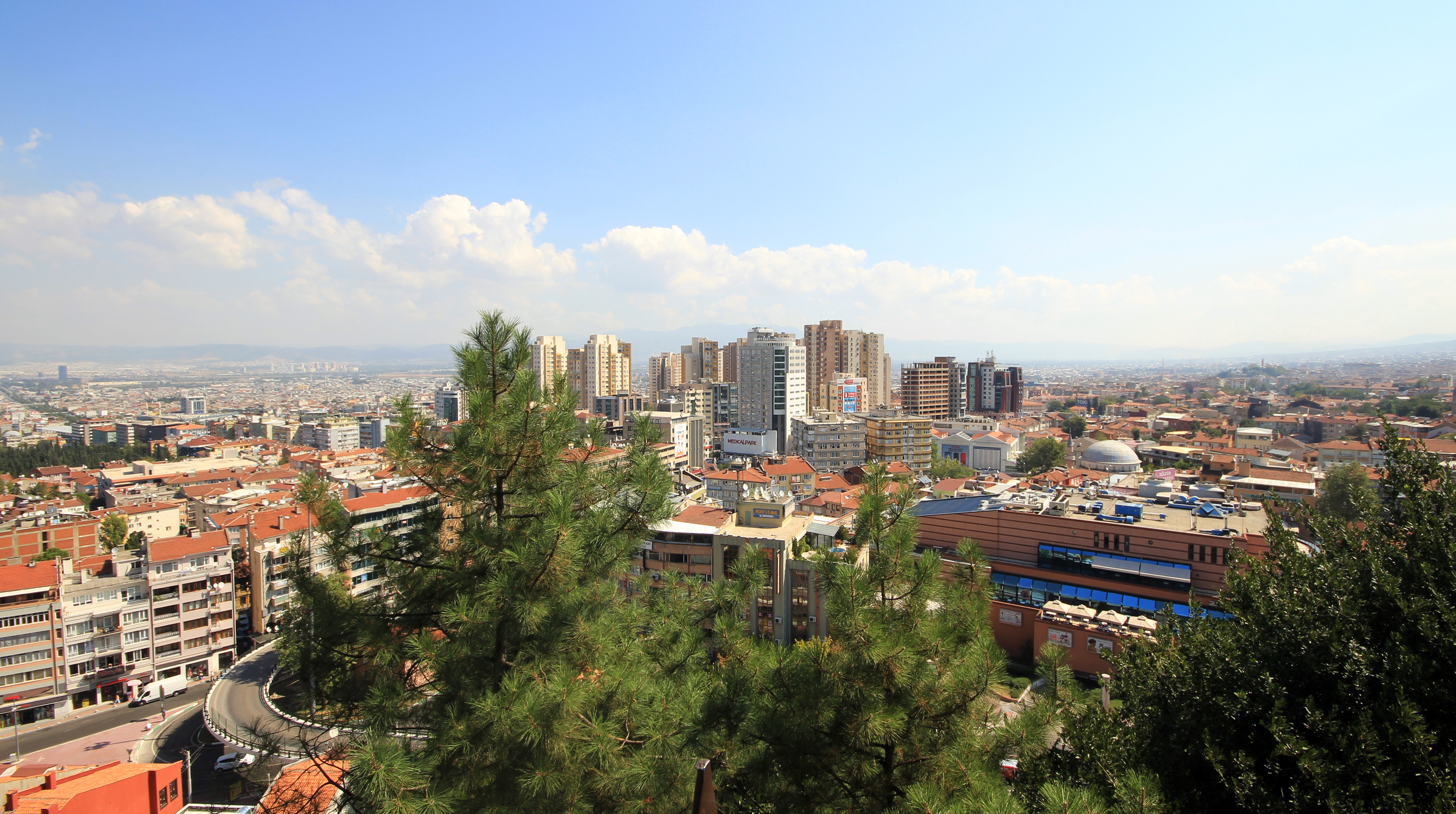 View on central part of Bursa city in Turkey